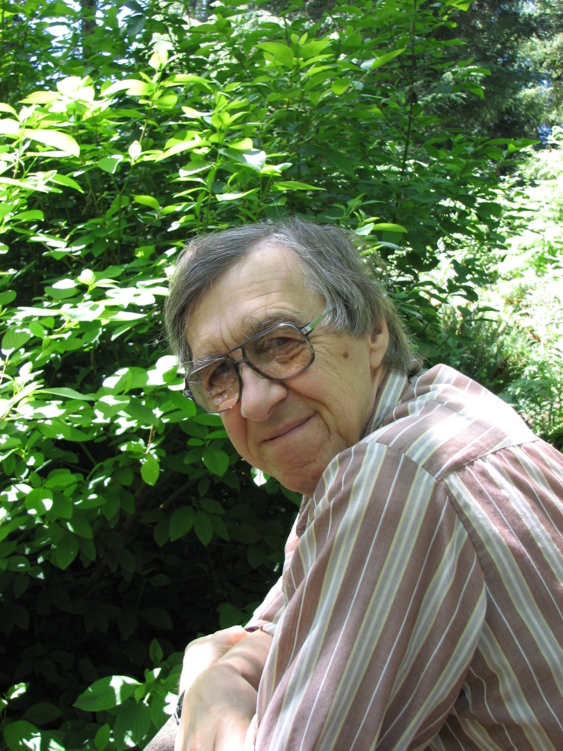 Photograph of Prof. Charles Tart